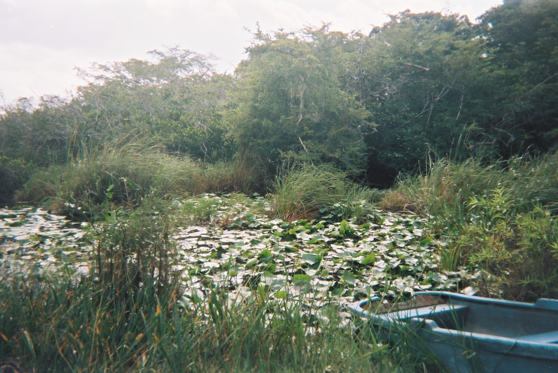 Picture taken by Friman des. 1. 2005, with a very special re-cycled Cuban camera. --Friman 23:05, 21 April 2006 (UTC)